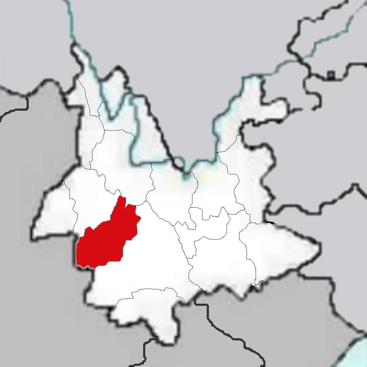 Yunan(云南) Province of China